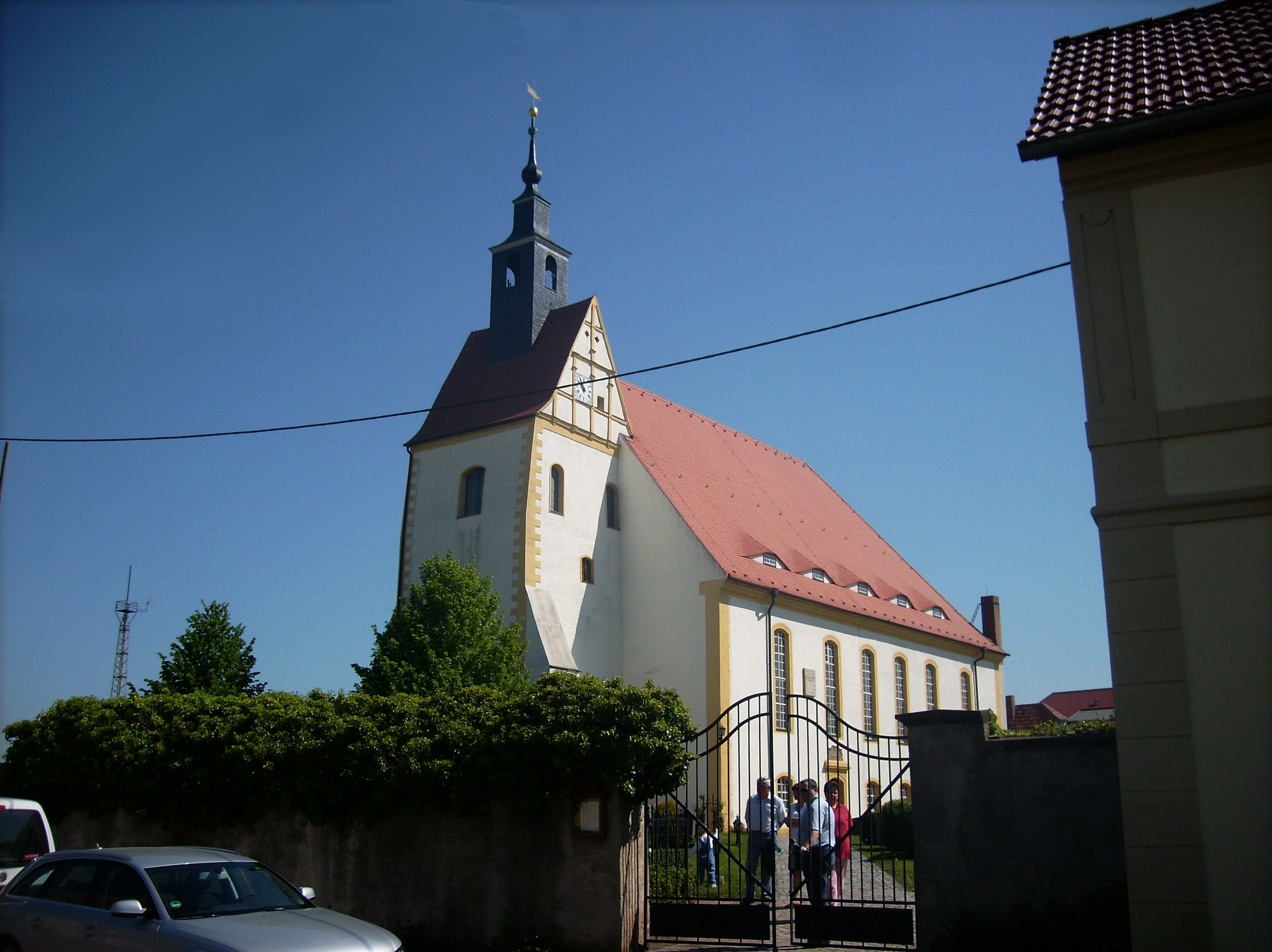 Rüsseina Church (Ketzerbachtal, Meissen district, Saxony) from the south-west